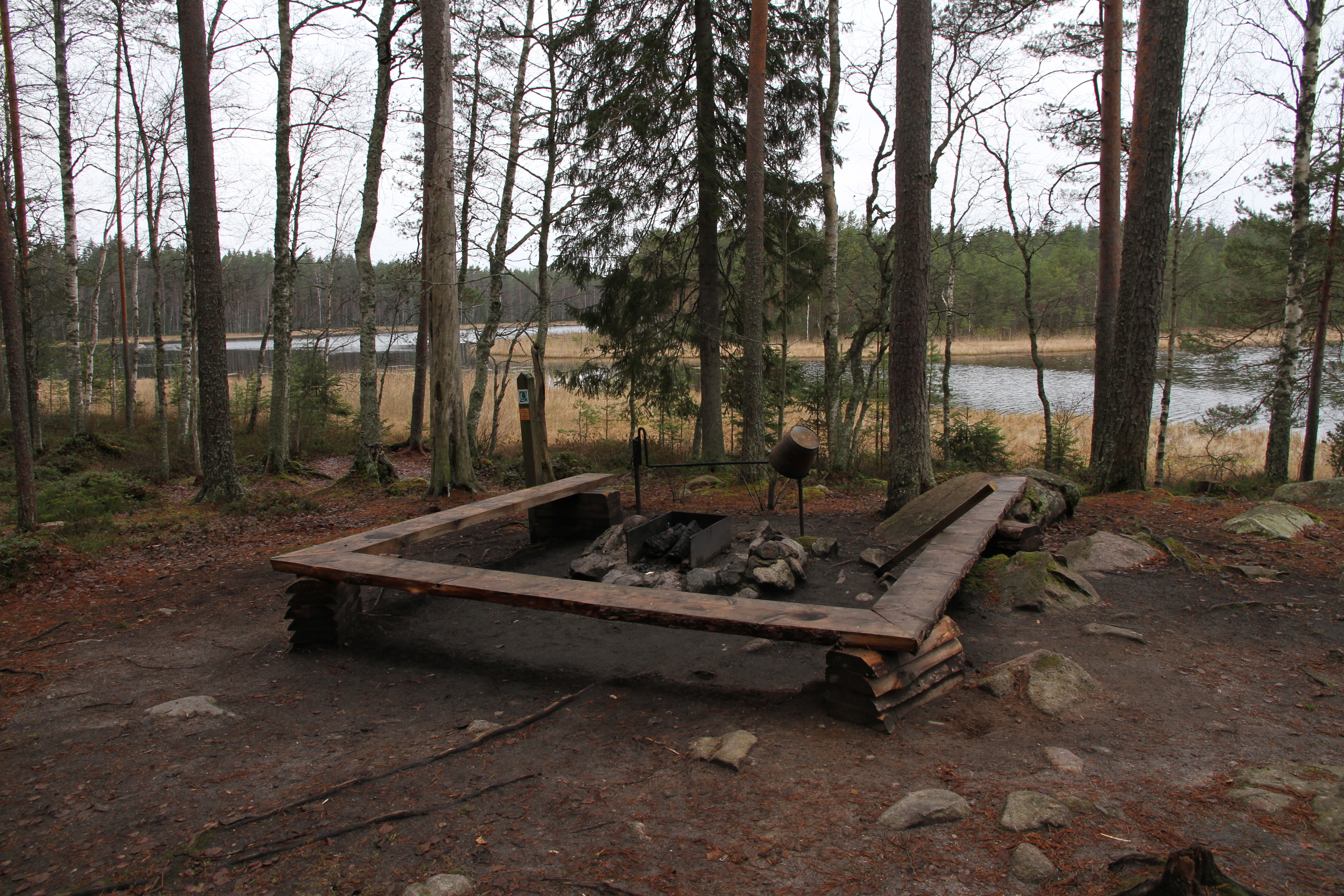 Liesjärvi National Park, Finland.